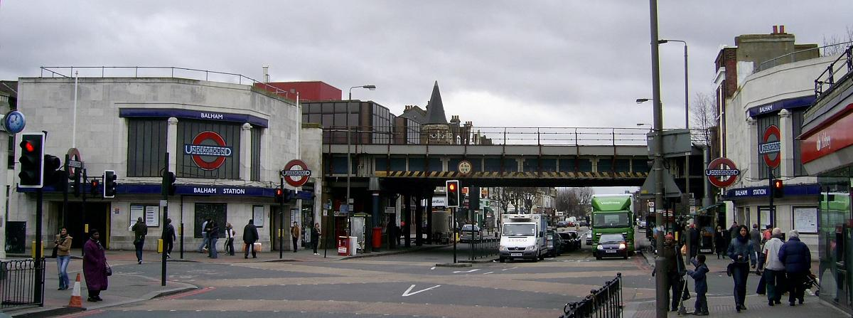 Exterior of Balham tube station